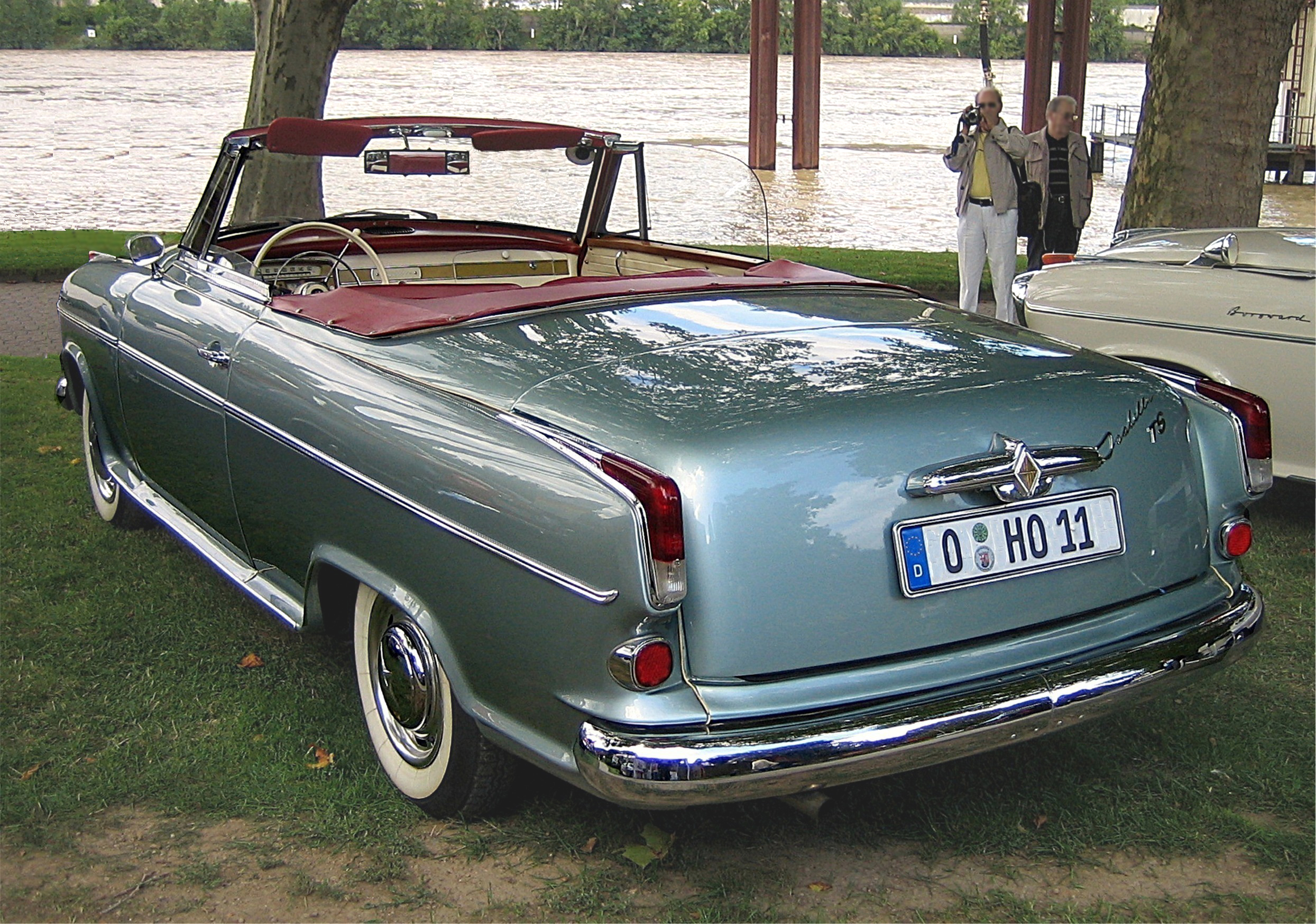 Borgward Isabella Cabriolet, German body (built 1959-60.)